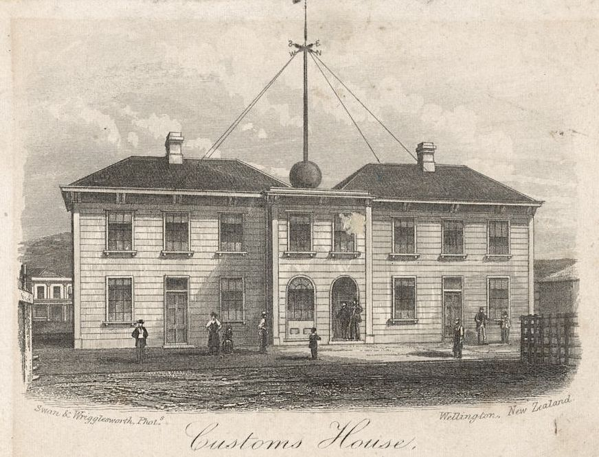 The Customs House building on the Wellington waterfront, built in the 1860s on reclaimed land, and showing the time ball which began operating on 8 March 1864.